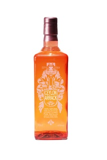 An official picture of a bottle of Rockland Ceylon Arrack, taken by the producers and licensed freely.